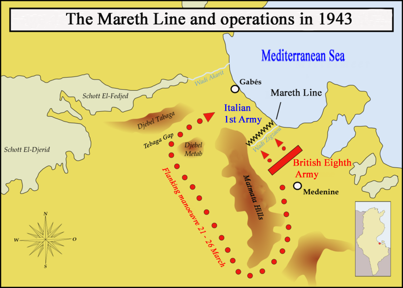 Map showing the situation of the Mareth line and the British attacks on it during March 1943